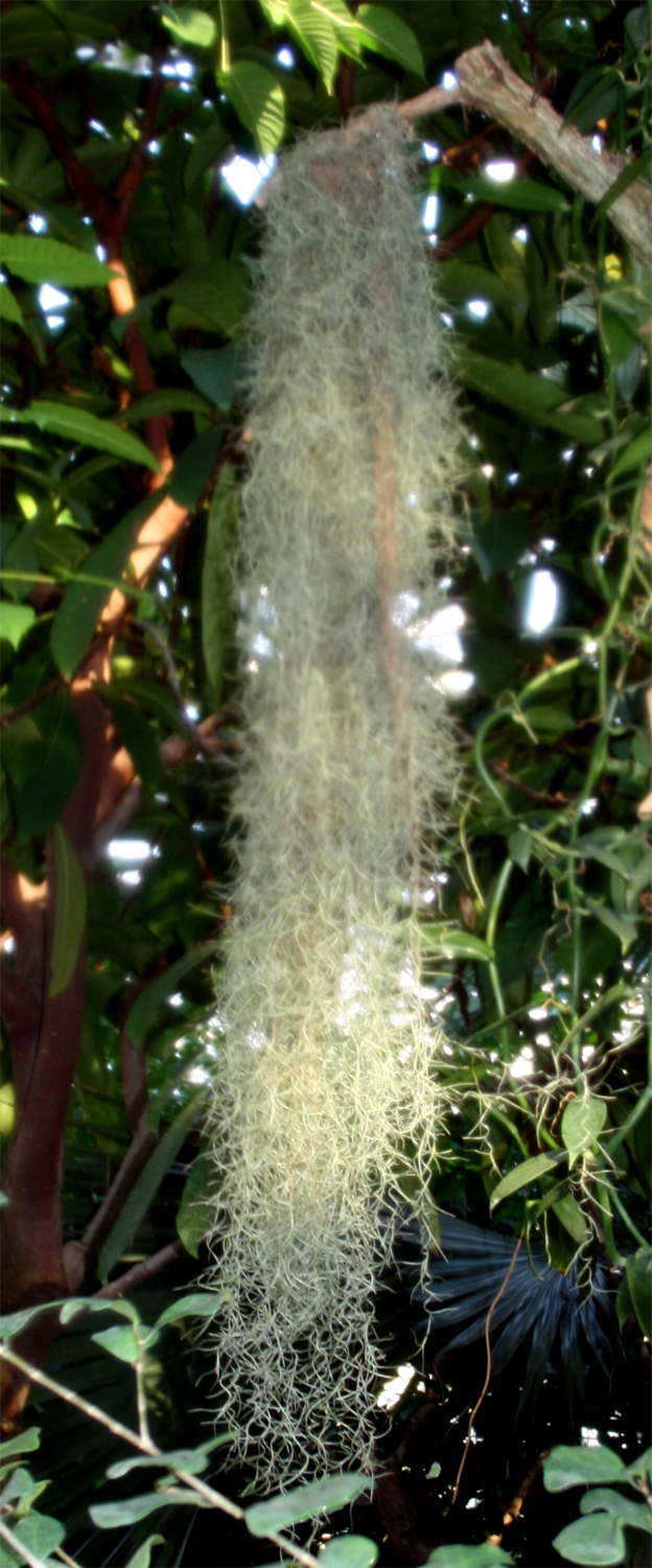 Tillandsia usneoides “(Španělský mech)” Prague botanic garden of Charles University Botanická zahrada University Karlovy v Praze Na Slupi Date= January 2008 Author=Karelj